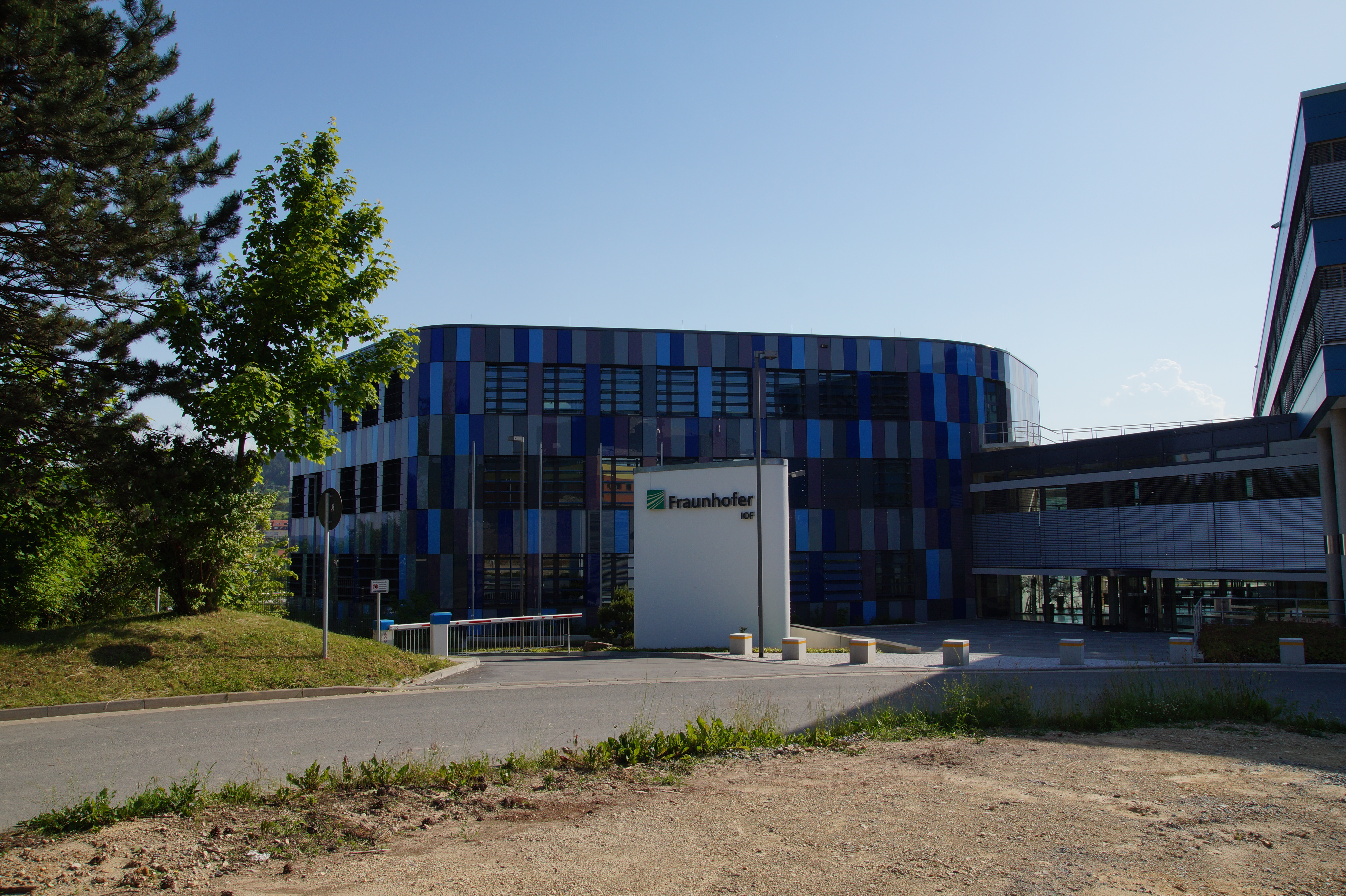 Modern building of the "Fraunhofer-Institut für Angewandte Optik und Feinmechanik" at the Beutenberg Campus in Jena.